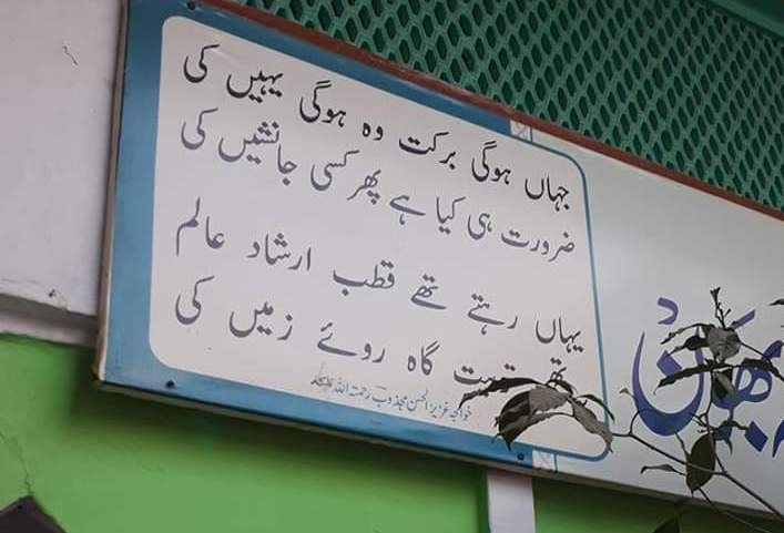 I had captured this during my trip to Thana Bhawan in February 2019.